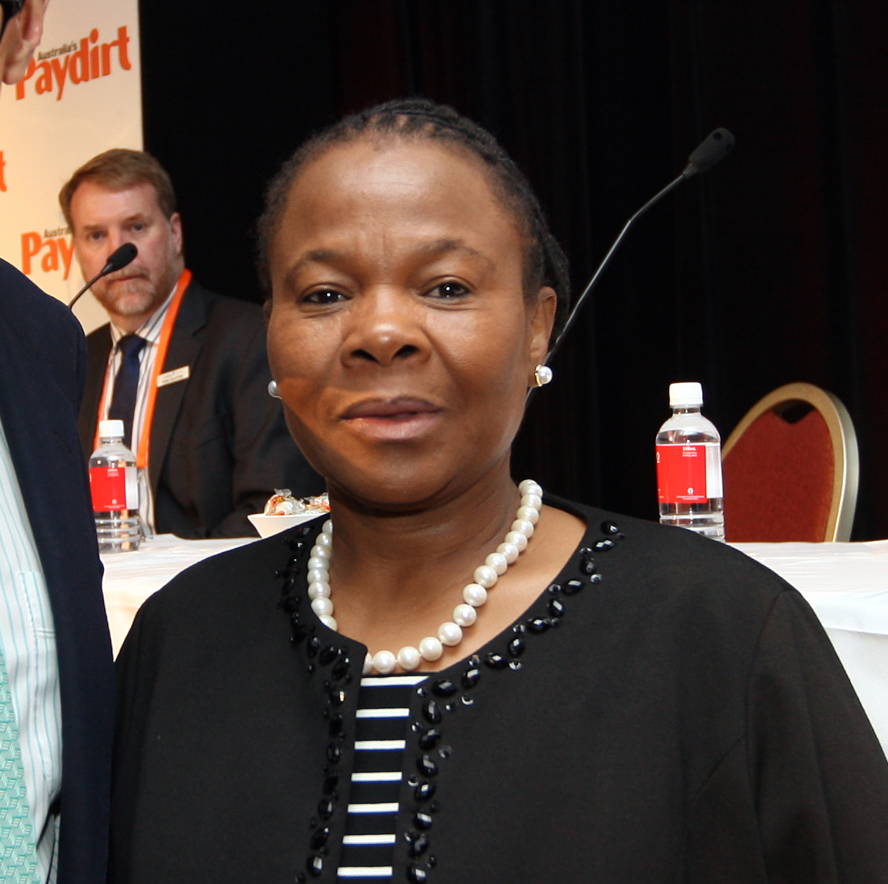 South Africa's Mining Minister Susan Shibango - cropped from a pic with Australia's former Foreign Minister Bob Carr, 2012. Photo: AusAID